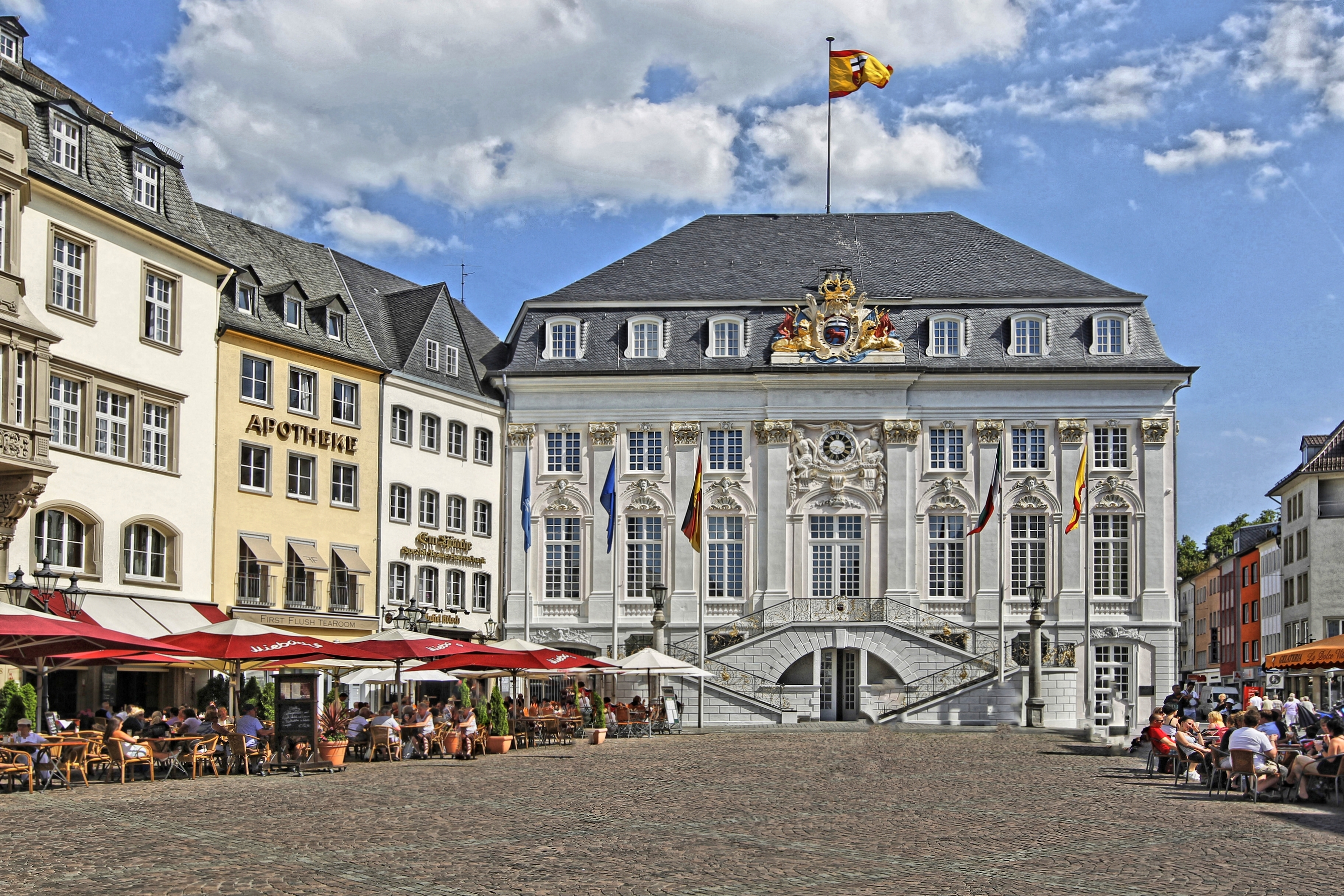 Bonn (Germany) - Old Town Hall at market place